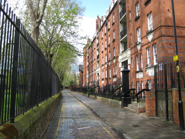 Stepney Green: Stepney Green Court, E1 The building on the right is Stepney Green Court, formerly Stepney Dwellings. It was built in 1896 by the 4% Industrial Dwellings Company. This Jewish company, chaired by Nathaniel, Lord Rothschild, built good quality, but low rent, accommodation for the working poor of the East End. The Rothschilds raised the money for the construction from wealthy Jewish businessmen on the understanding that the profits for the shareholders would be limited to 4%. The cobbled street is defaced with the usual over-zealous yellow lining.